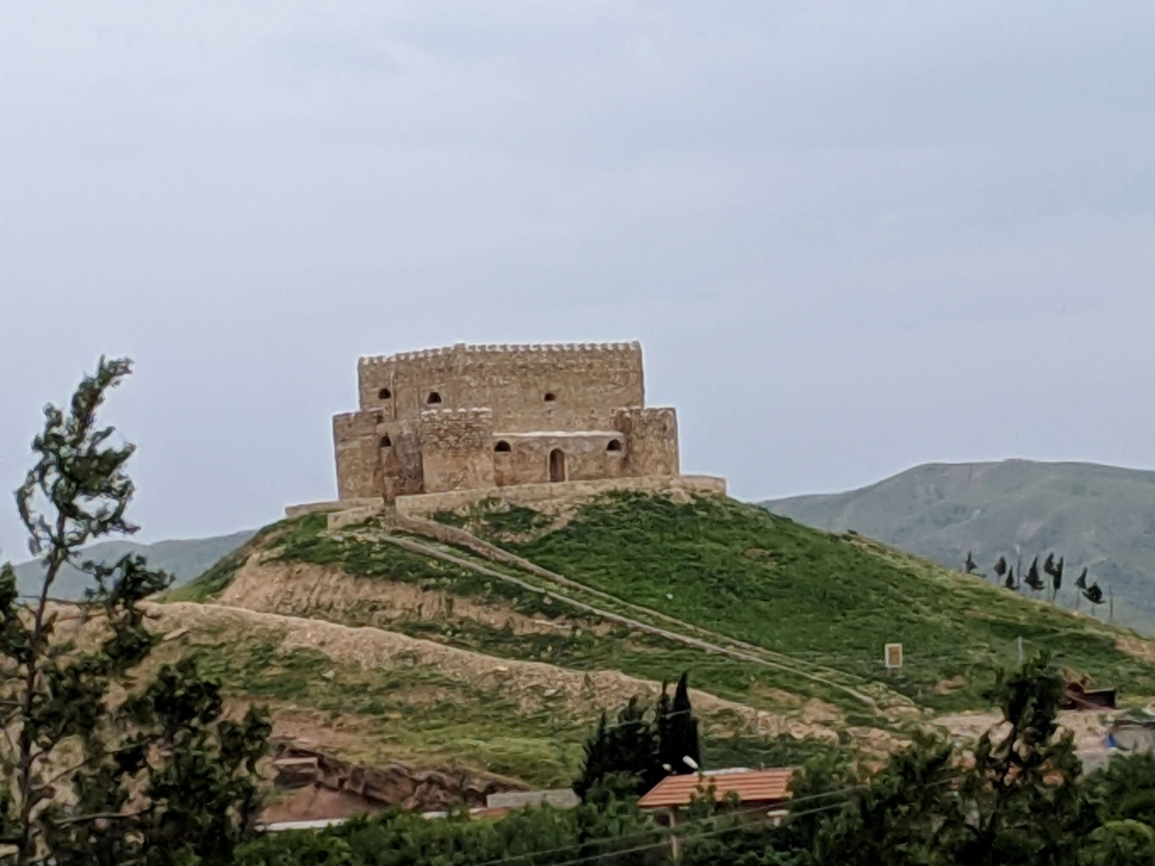 کوردی: Khanzad Castle, located Erbil-Iraqi Kurdistan.